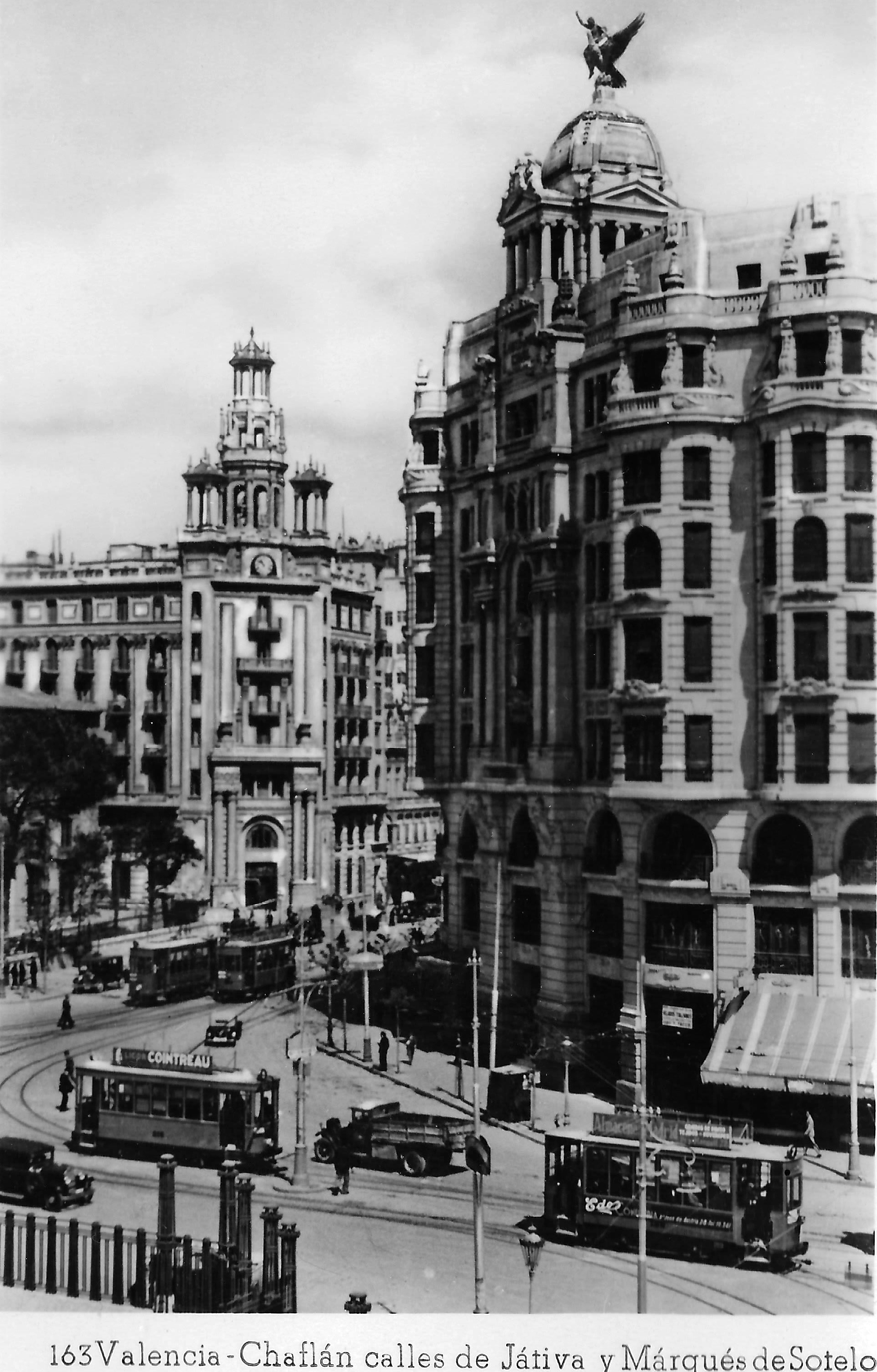 Trams in the streets of Valencia in the 1930s